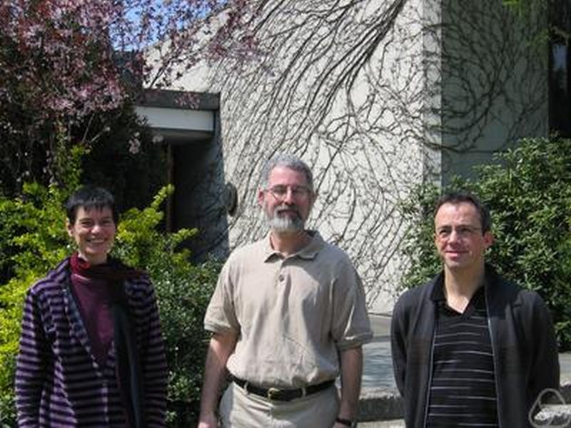 From left: Sylvie Paycha, Steven Rosenberg, Simon Scott, Oberwolfach 2006